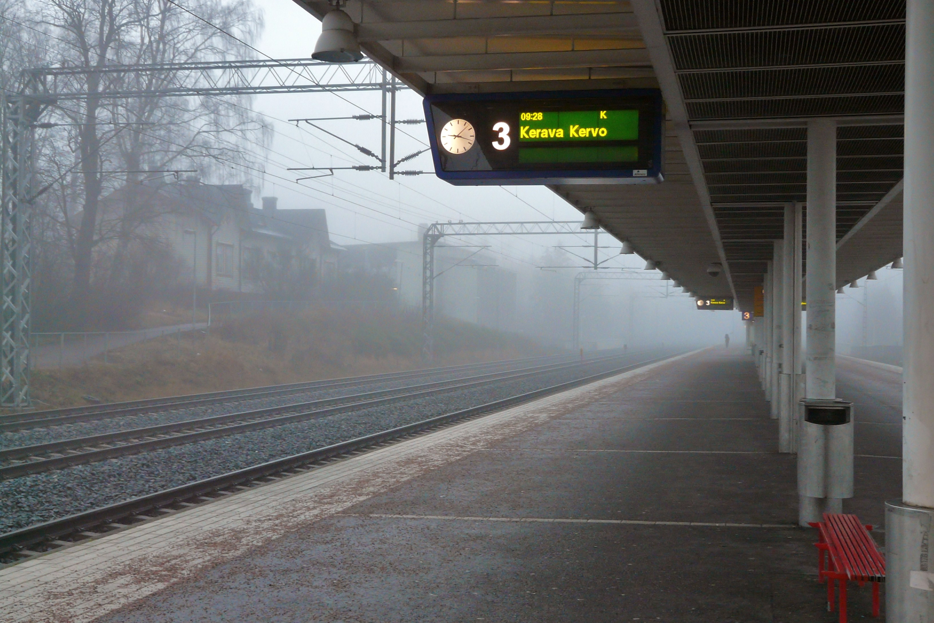 A view on the platform of Korso railway station in a foggy morning in 2009 November.